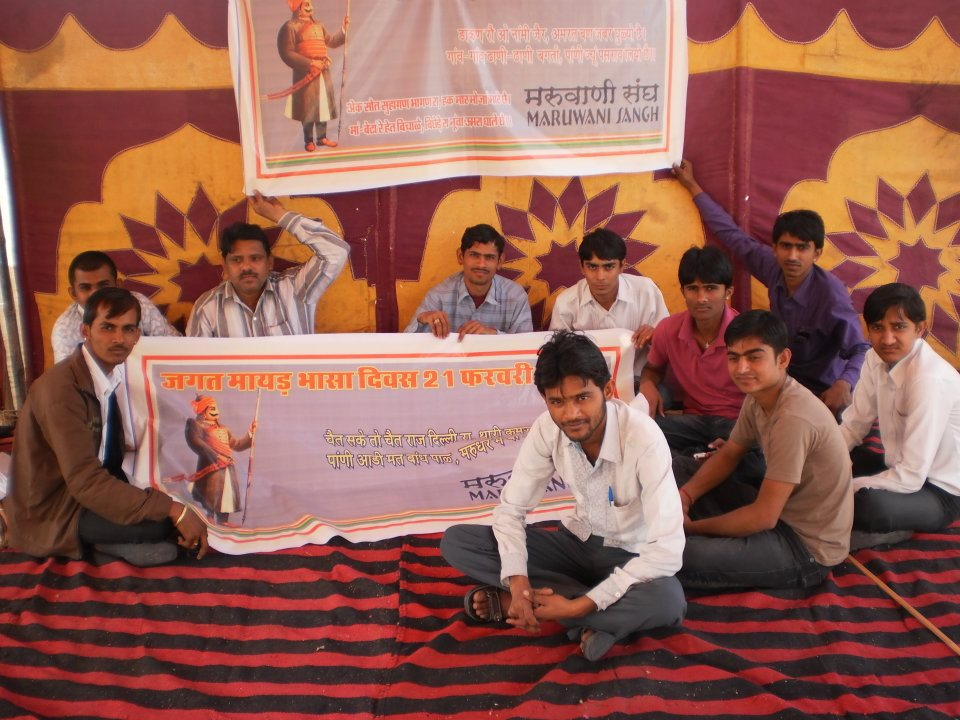 People in Indian state Rajasthan demanding schedule status for Rajasthani Language.